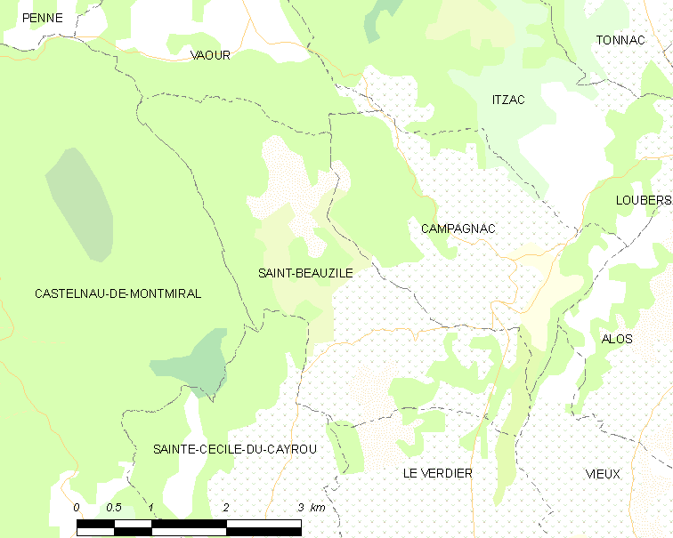 Map of French municipality Saint-Beauzile